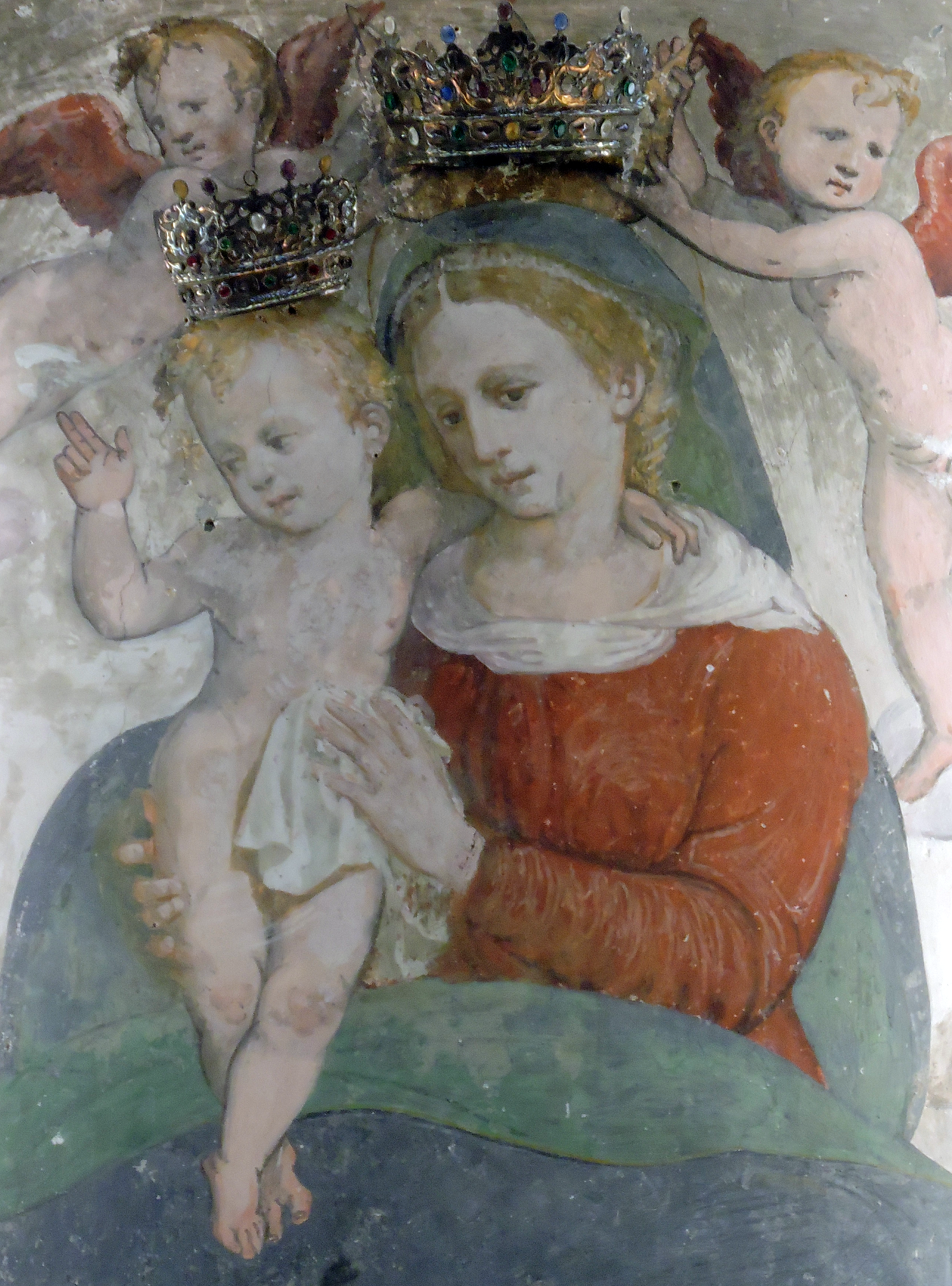 Santuario di Valsorda (Garessio, CN, Italy)